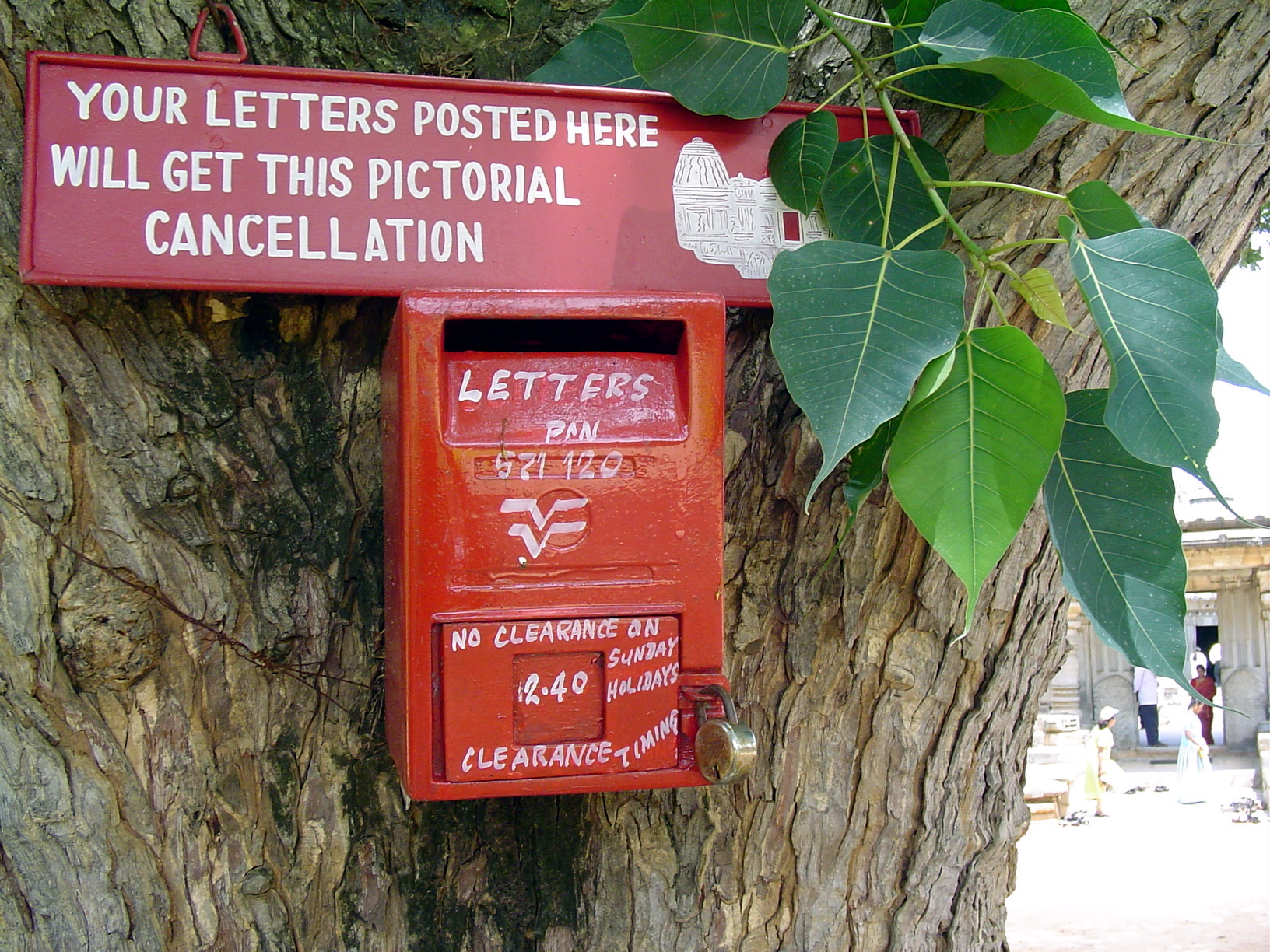 Pictorial cancellation. Postal cancellation with a special design. This post box is located at a historical site Somnathpur in Karnataka, India. The special postal cancellation is to act as a publicity / commemoration media for this tourist site. The special cancellation is done at no extra cost. But the only letters posted at this box located in front of the Kesava temple would get the special cancellation. The cancellation logo is the sketch of the temple.